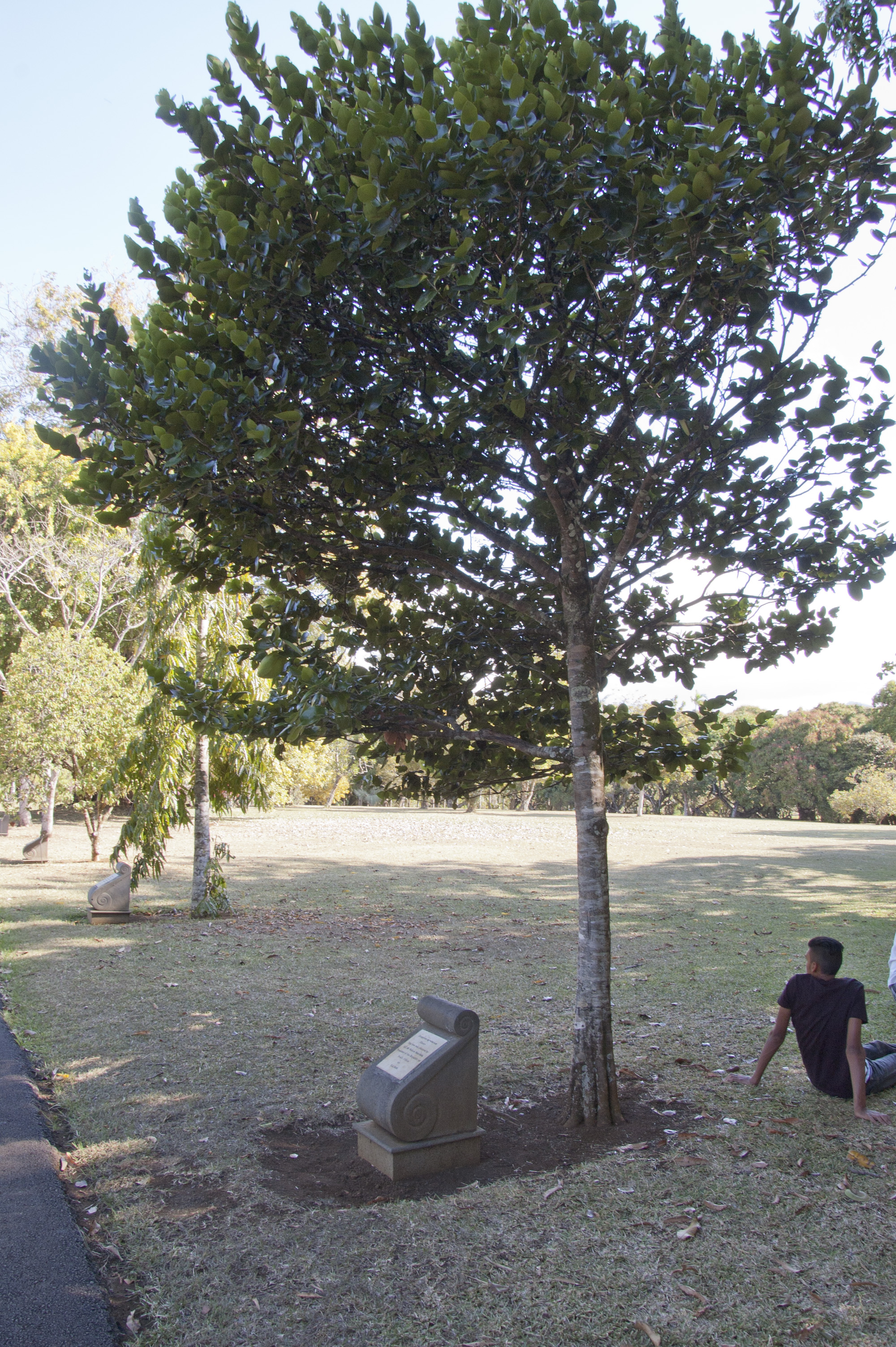 Diospyros egrettarum ebony planted by Nelson Mandela Pamplemousses, Mauritius